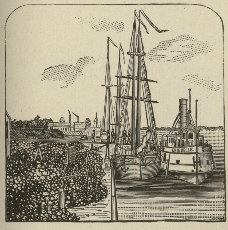 An engraving of a crew unloading coal from a schooner, with the tug Erie Belle alongside, from an 1884 advertisement for coal. The Erie Belle exploded in 1883, but this image got used after that as a generic "people unloading coal from a ship" image. I don't know what ship the schooner is, if it is indeed supposed to be a specific ship.